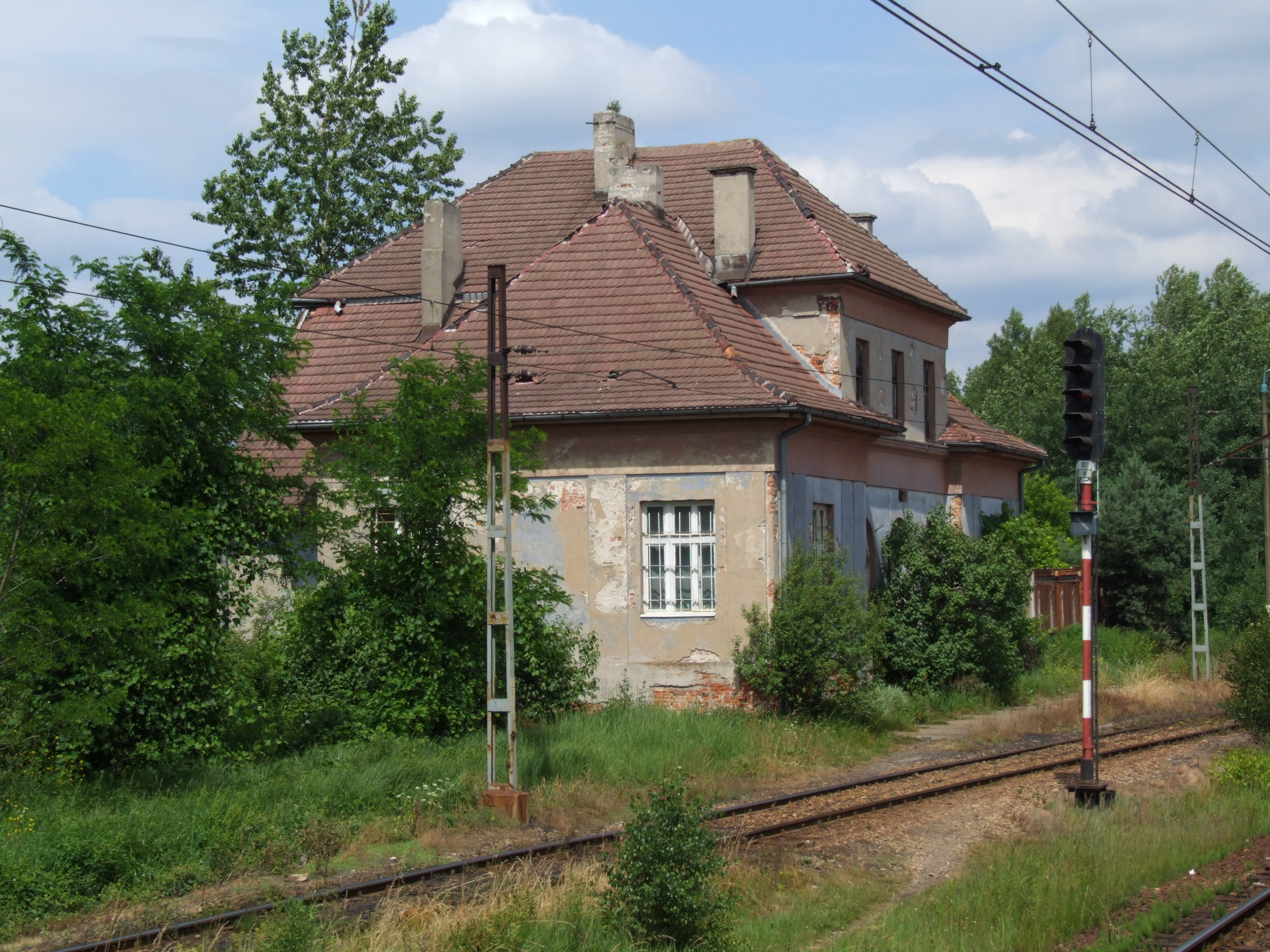 Train station Sosnowiec Jęzor